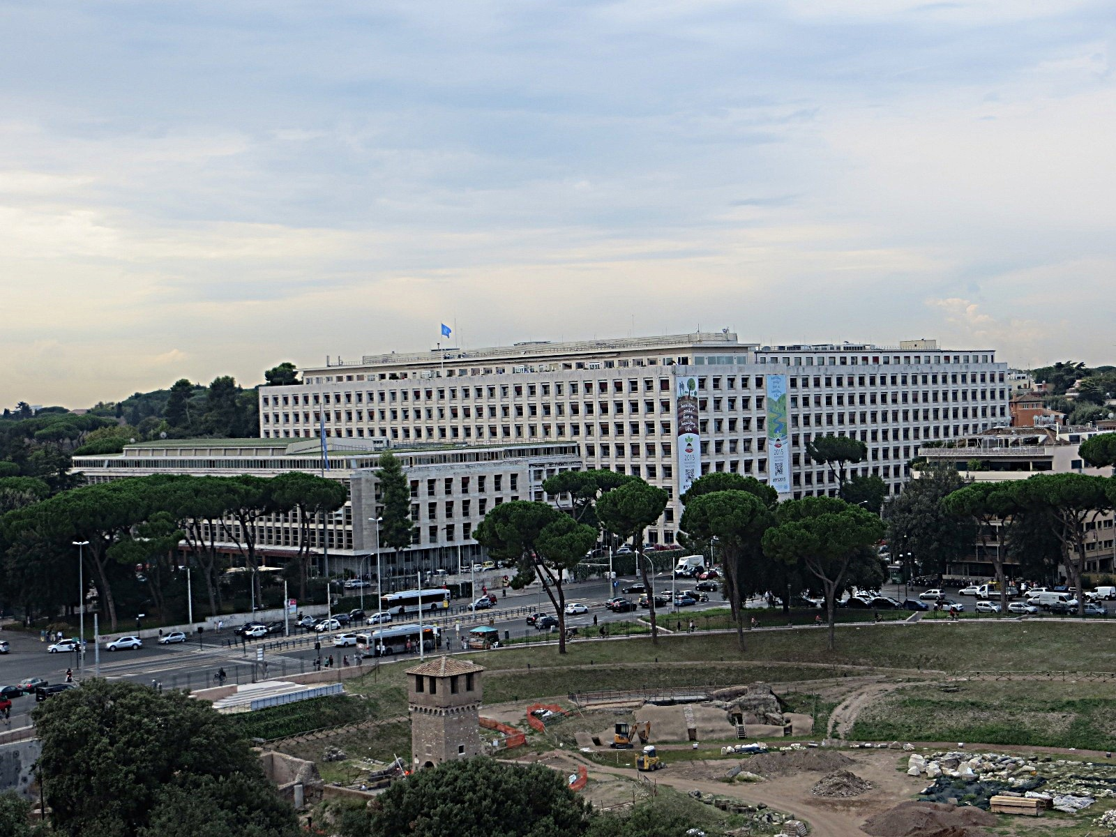 Food and Agriculture Organization of the United Nations